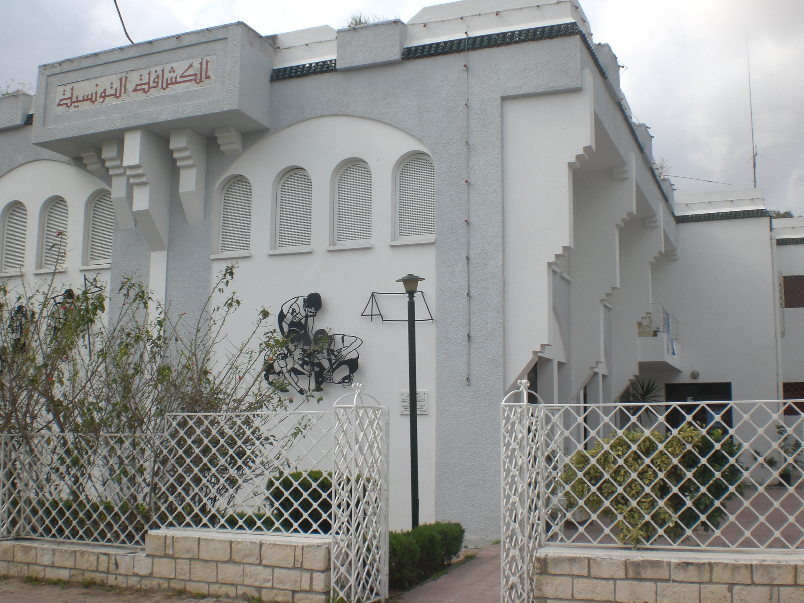 The headquarts of Tunisian Scouts Association